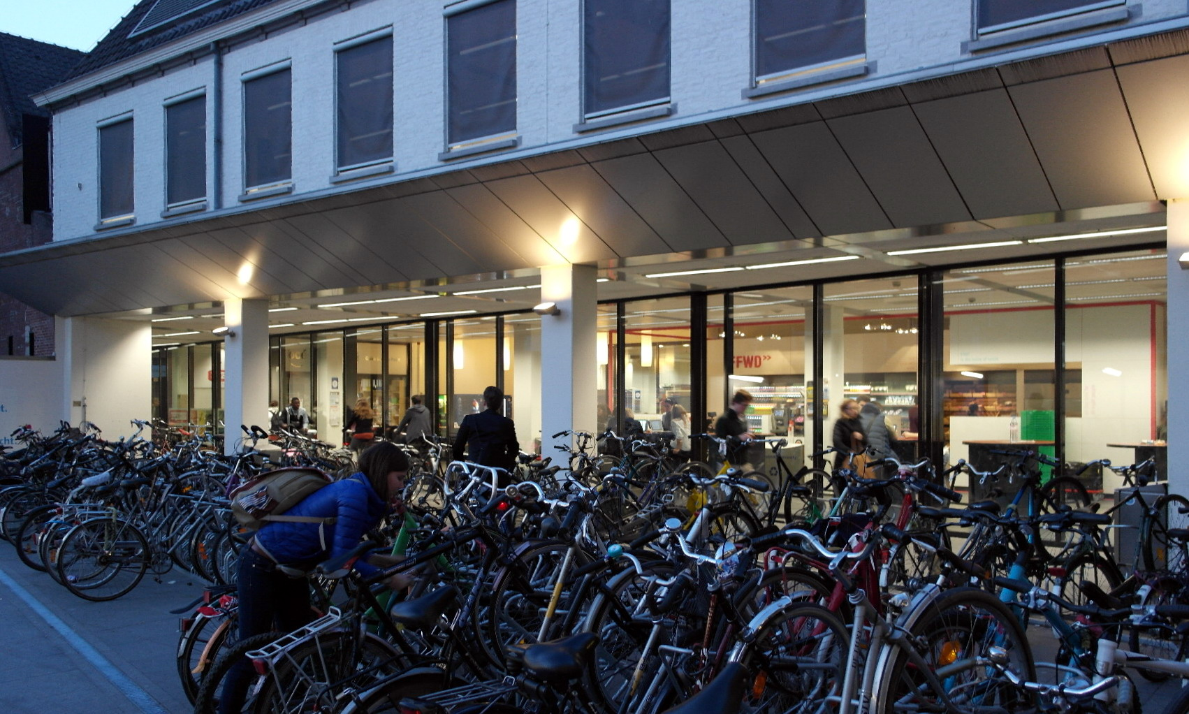 Maastricht, the Netherlands. View from the courtyard at Nieuwenhofstraat of the university library, inner city branch.